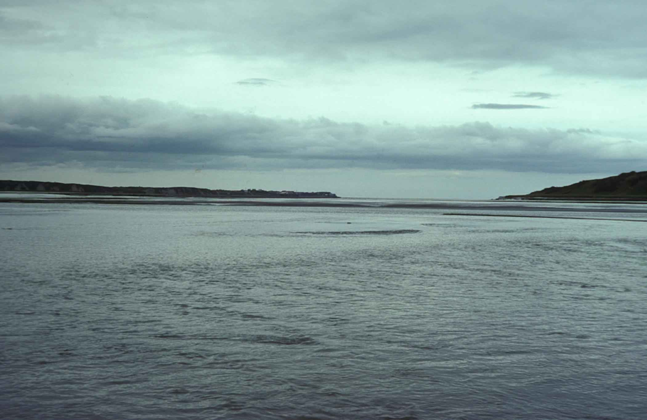 Image title: Egegik bay on the Alaska Peninsula Image from Public domain images website